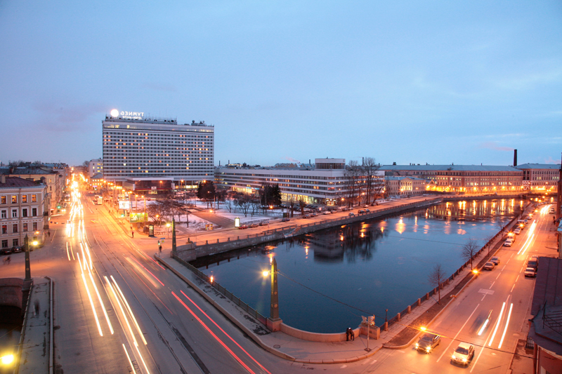 Azimut Hotel Saint Petersburg. Azimut Hotels chains